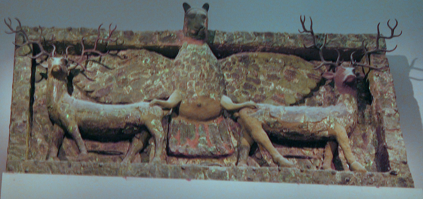 Imdugud (also Zu or Anzu), the lion-headed eagle; Sumerian metalwork (sheets of copper), Temple of Ninhursag at Tell al-'Ubaid; ca. 2500 BC.